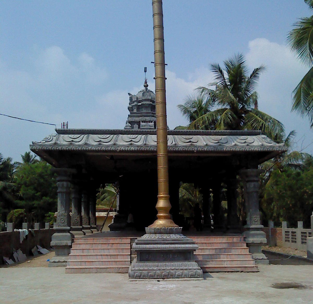 తూర్పుగోదావరి జిల్లా ఆత్రేయపురం మండలం లొల్ల గ్రామంలోని రాజరాజనరేంద్రుని కాలపు నాటి దేవాలయం పునర్నిర్మింపబడినది.